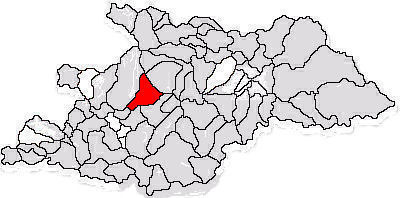 Limits of Baia Sprie Maramureş County